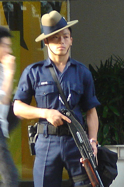 Description: Close-up view of Gurkha trooper on guard at a carpark entrance of Raffles City during the 117th IOC Session. Source: Self-made Location: Raffles City, Singapore Date: 05/07/2005 17:58 Cropped version of Image:Gurkha IOC 1.jpg